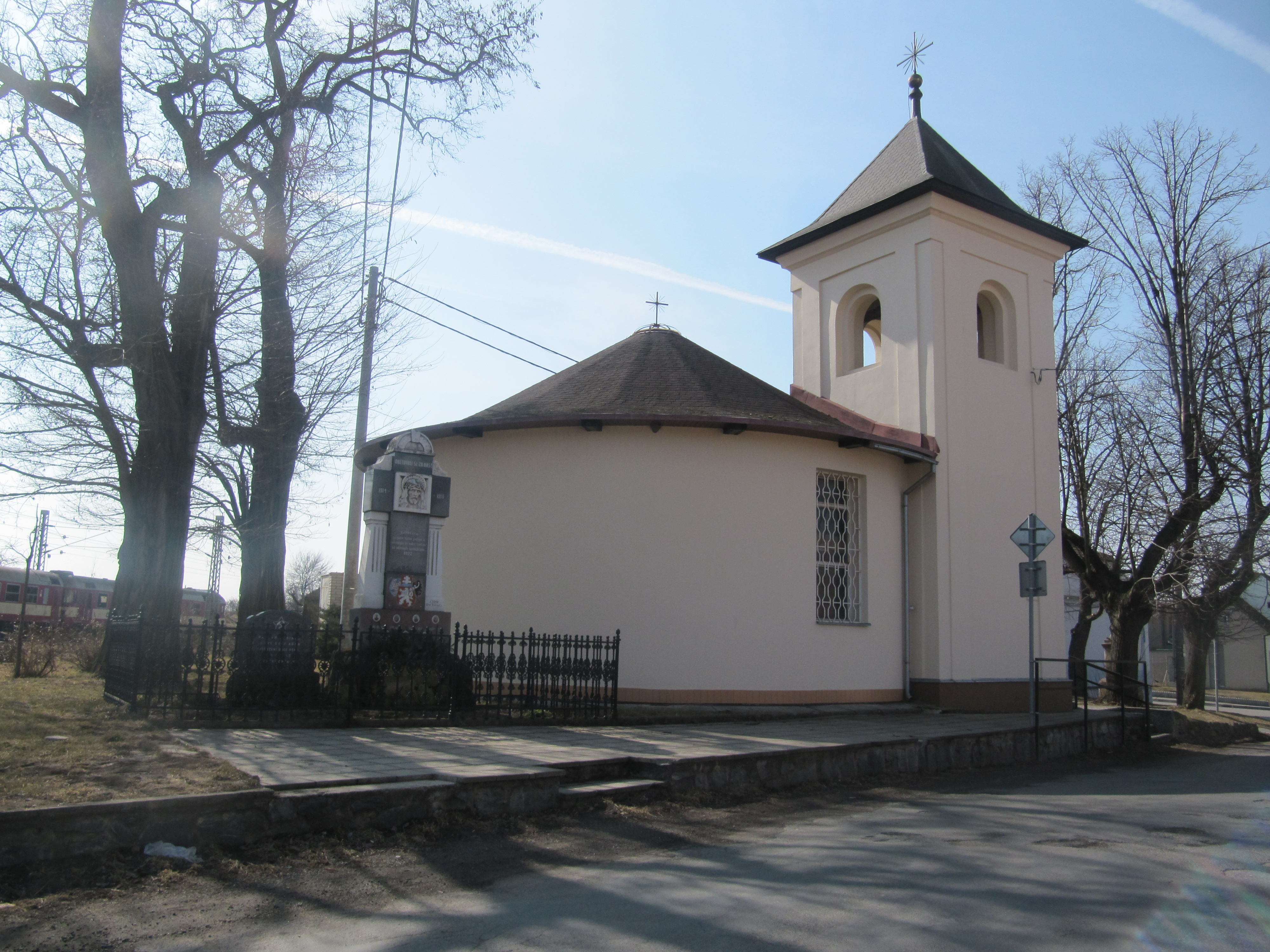 Ponětovice in Brno-Country District, Czech Republic. Chapel and monument.